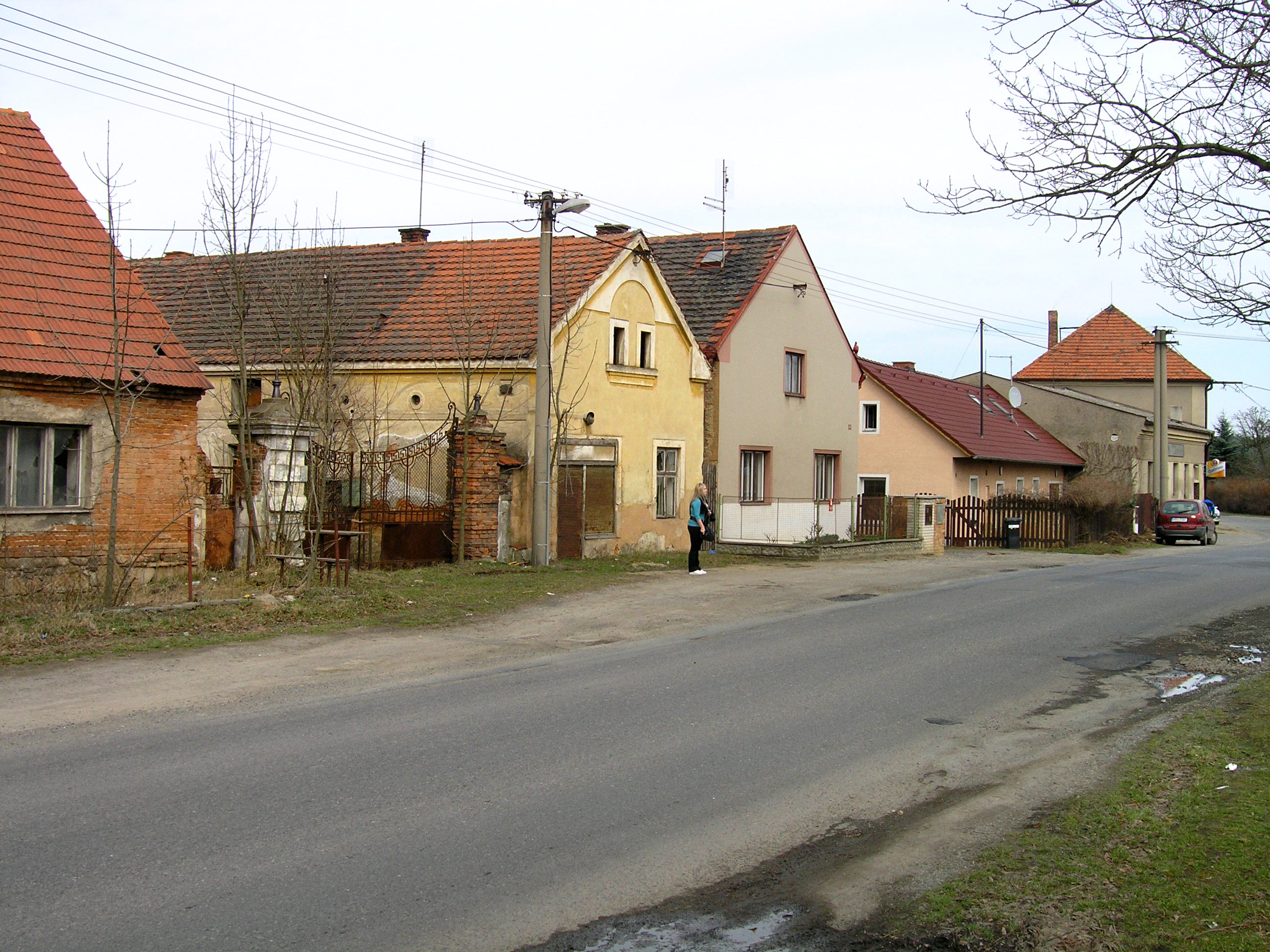 Common in Zruč, part of Zruč-Senec village, Czech Republic